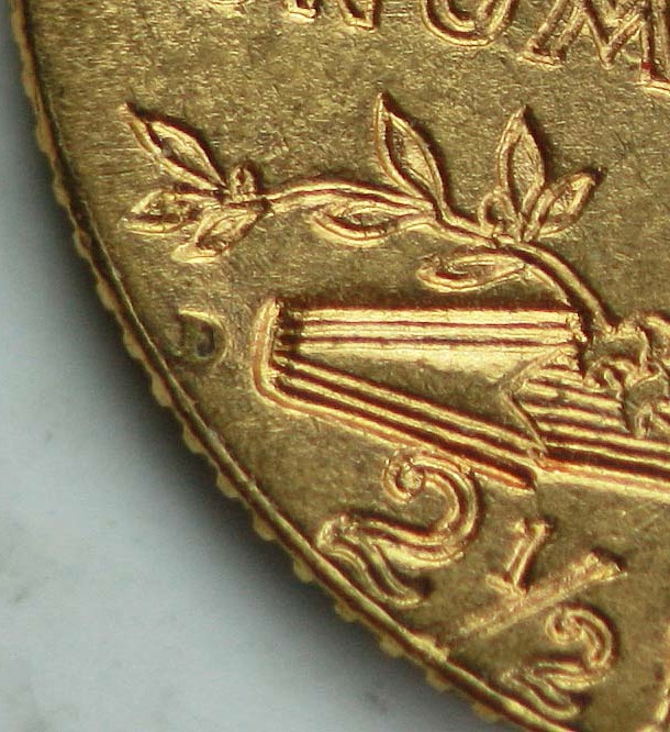 Reverse of a 1911-D Indian Head quarter eagle, detail showing the mintmark.